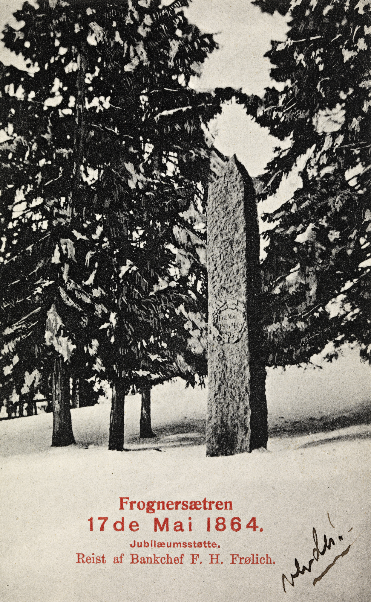 Tittel / Title: Frognersætren 17de Mai 1864 Beskrivelse / Description: Postkort. Fotograf / Photographer: ukjent / unknown Utgiver / Publisher: ukjent / unknown Utgitt / Published: 1914 Sted / Place: Oslo, Frognerseteren Eier / Owner Institution: Nasjonalbiblioteket / National Library of Norway Lenke / Link: Bildesignatur / Image Number: blds_05704